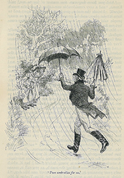 Illustration for'"Emma" by Jane Austen : [Mr Weston] borrowed with gallantry two umbrellas for Emma Woodhouse and Miss Taylord (ch.1)